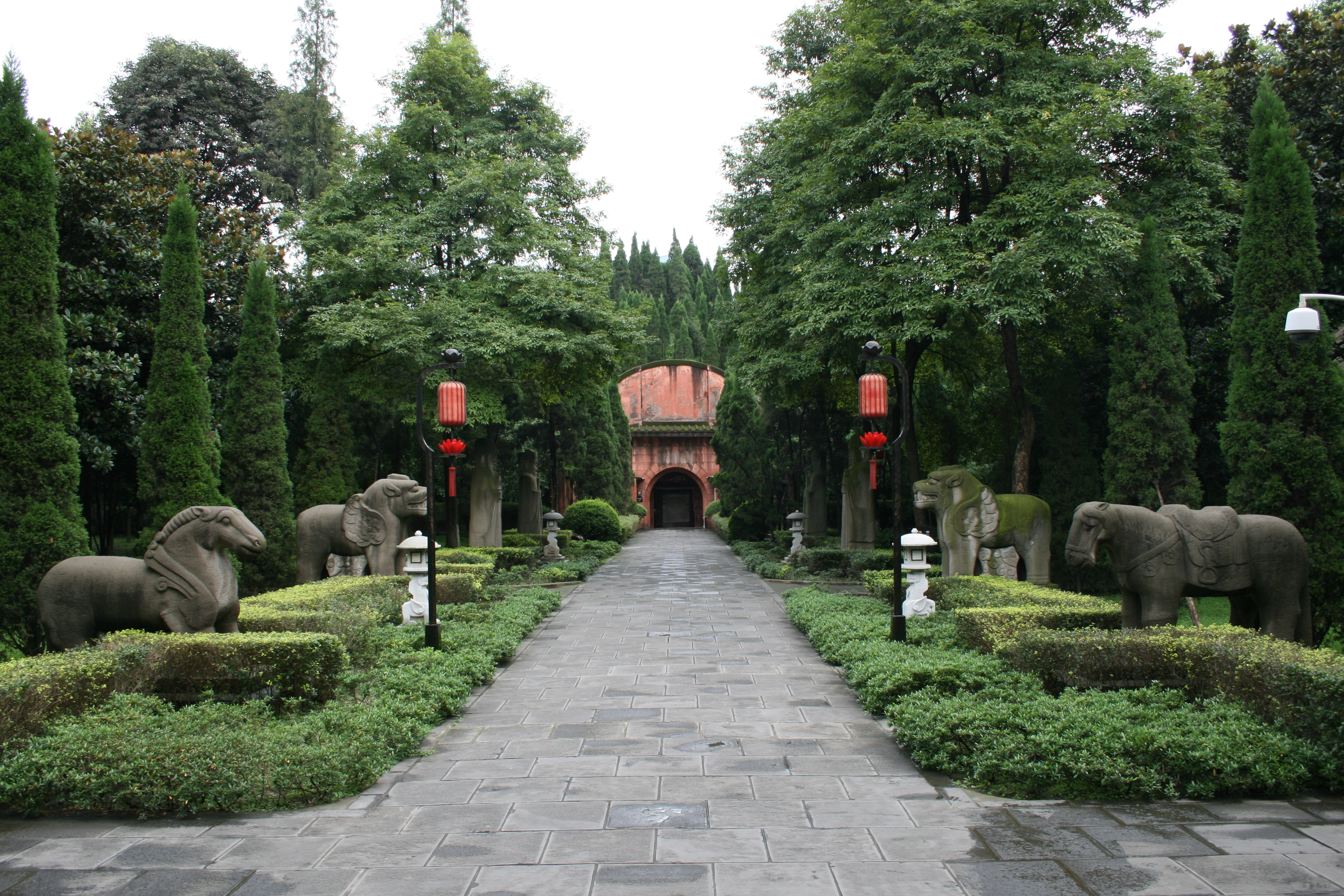 Wang Jian(The first emperor of Former Shu Dynasty)'s Tomb, also known as "Yong Ling" in Chinese